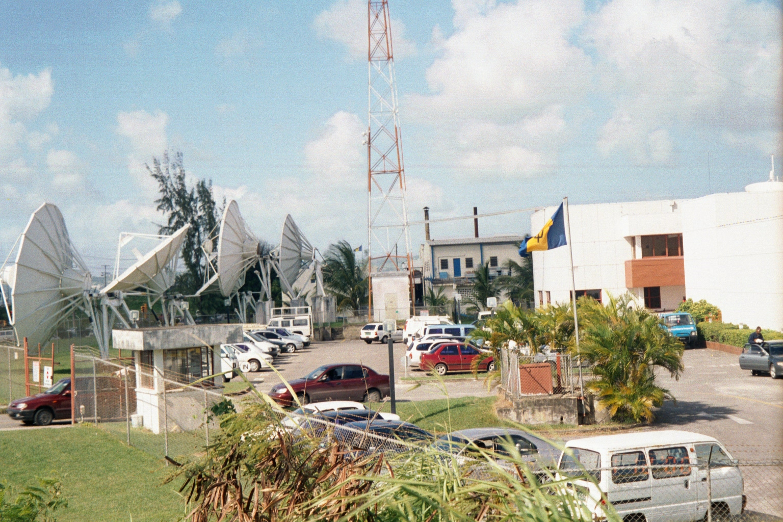 Photo of the communications satellite dish antennas at the Caribbean Broadcasting Corporation (CBC) complex in Barbados.